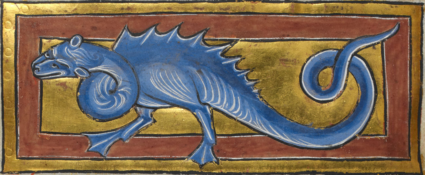 Seps- Bestiary, Royal MS 12 C XIX; 1200-1210